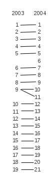 Variants by section between versions 2003 and 2004 of Alice Munro's story "Runaway"